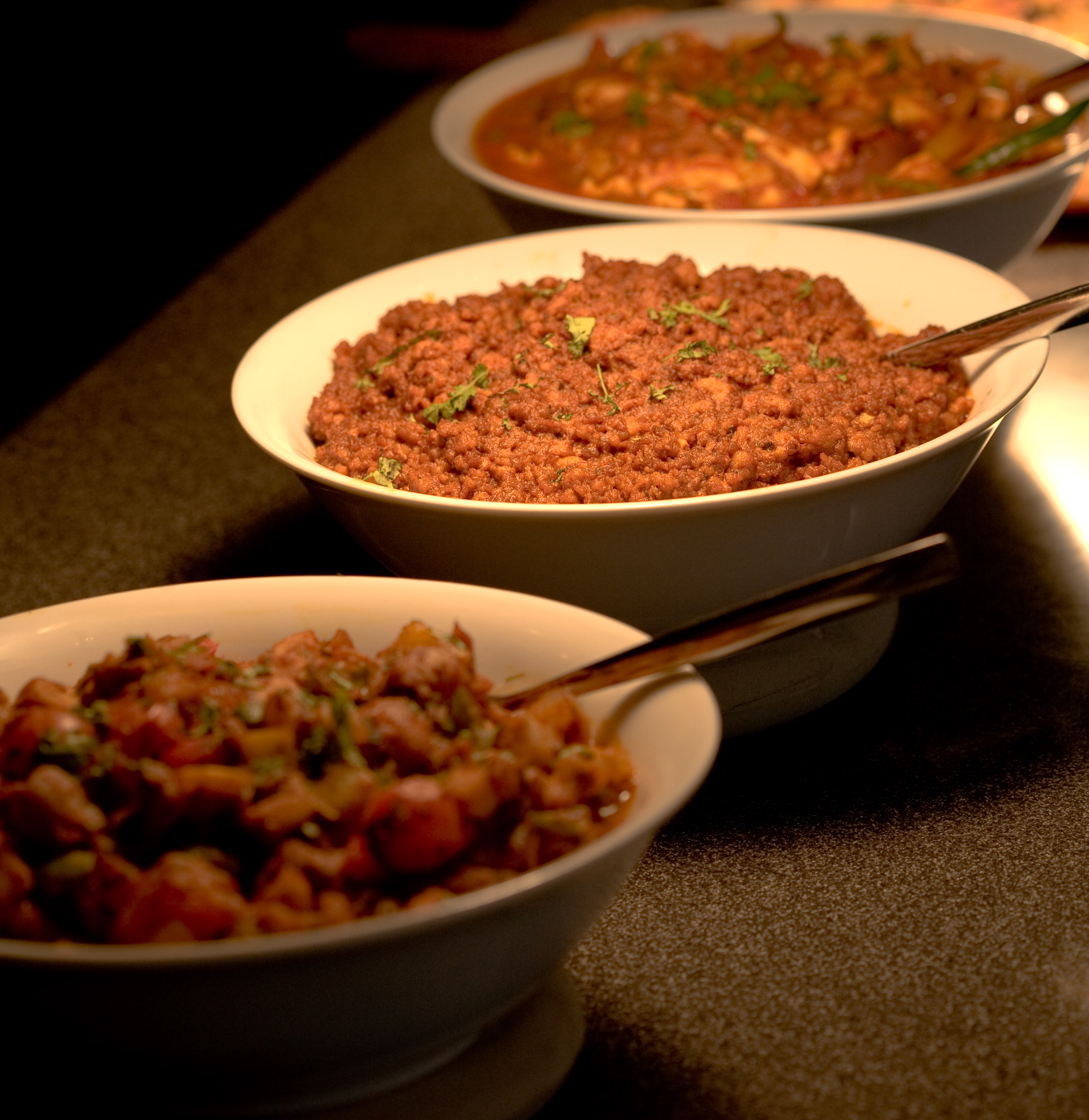 Karnataka Food